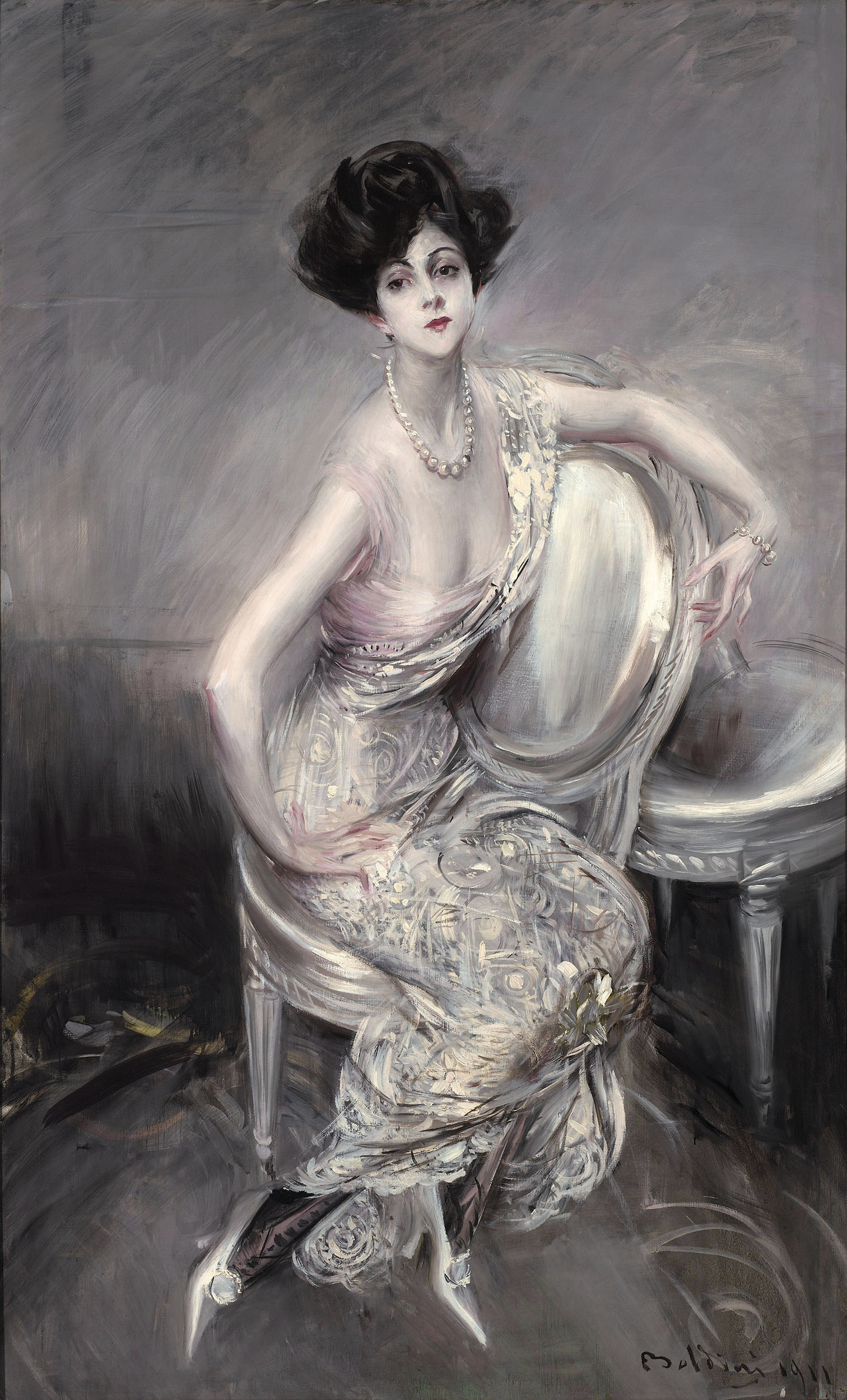 Portrait of Rita de Acosta Lydig by Giovanni Boldini. Oil on canvas. Signed and dated “Boldini 1911” (lower right)